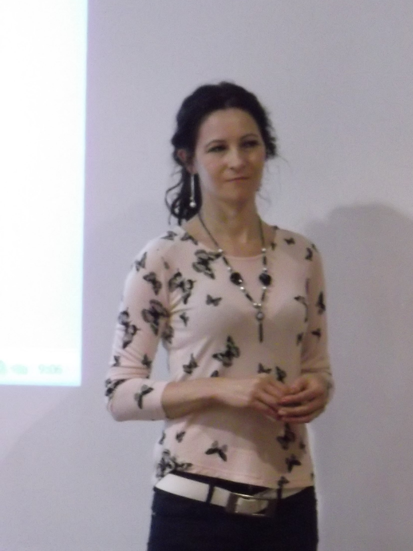 Klaudija Sedar (b. 1980) Slovene latinist and linguist in the Murska Sobota Library (2015)